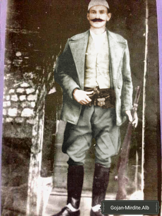 Photograph of Ndue Perlleshi